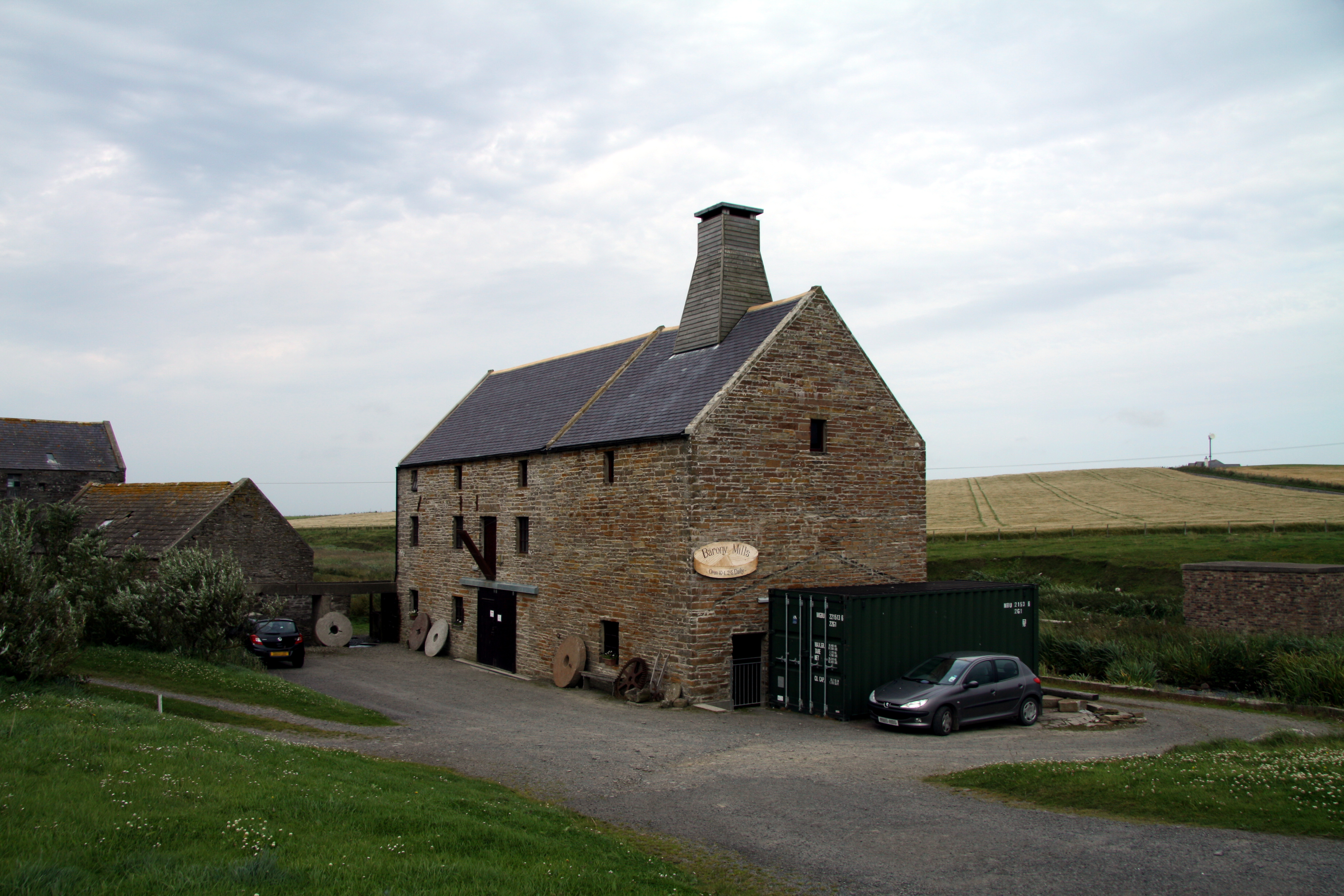 Old mill near Birsay village in Orkney Island, Scotland